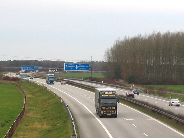 german motorway Bundesautobahn 24 (E26), near motorway junction Schwerin, direction Hamburg